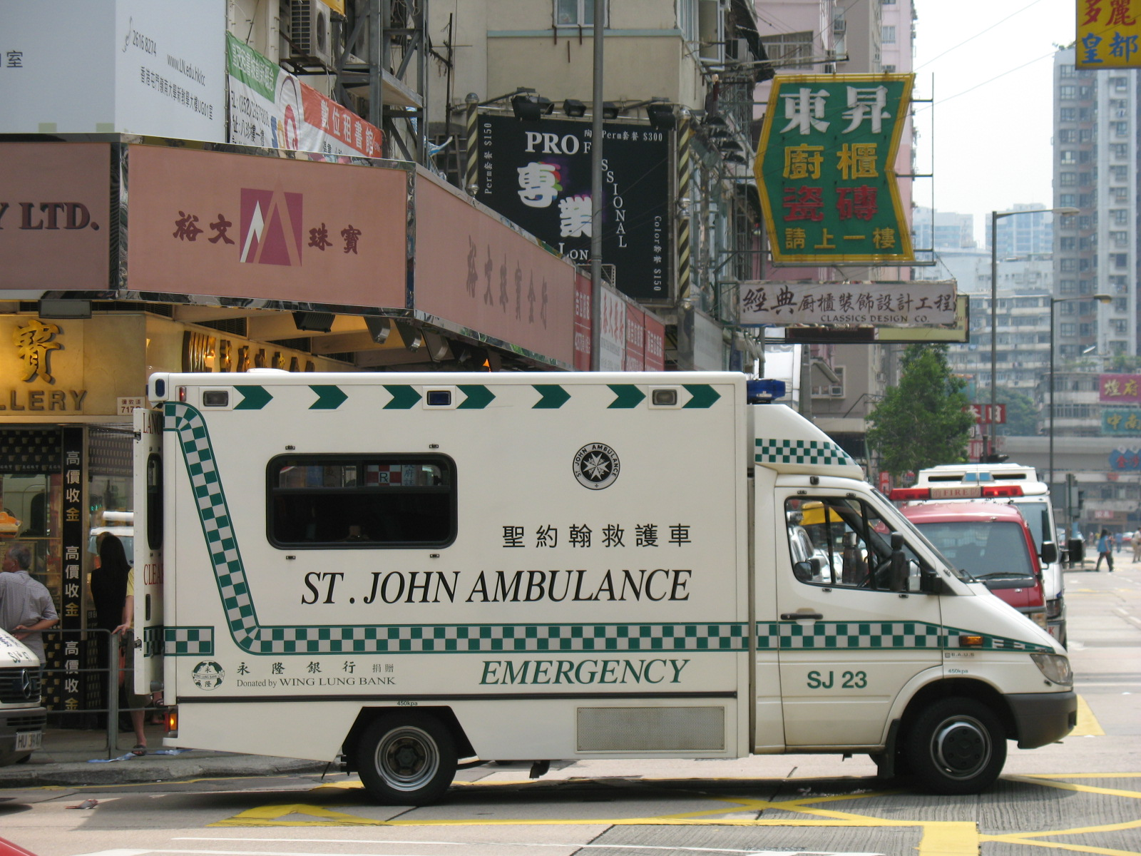 Mercedes Benz Sprinter 416CDI Ambulance (BAUS Model) for St. John Ambulances Hong Kong. 中文（香港）: 香港聖約翰救護機構是全港唯一非政府慈善救護服務團體之一，以支援及協助消防處緊急救護車服務工作，應付任何大小災難事件而執行任務，及支援公眾集會和賽馬日提供救護服務，而一輛配備德國BAUS救護車車身的平治凌特416CDI型號就是其中之一。